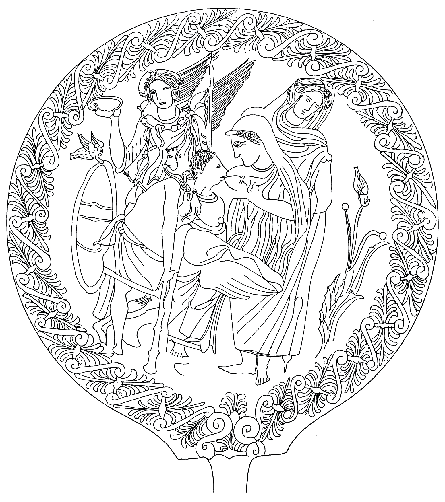 Engraved mirror with Uni nursing Hercle, reverse. From Tomb 65, Tarquinia.